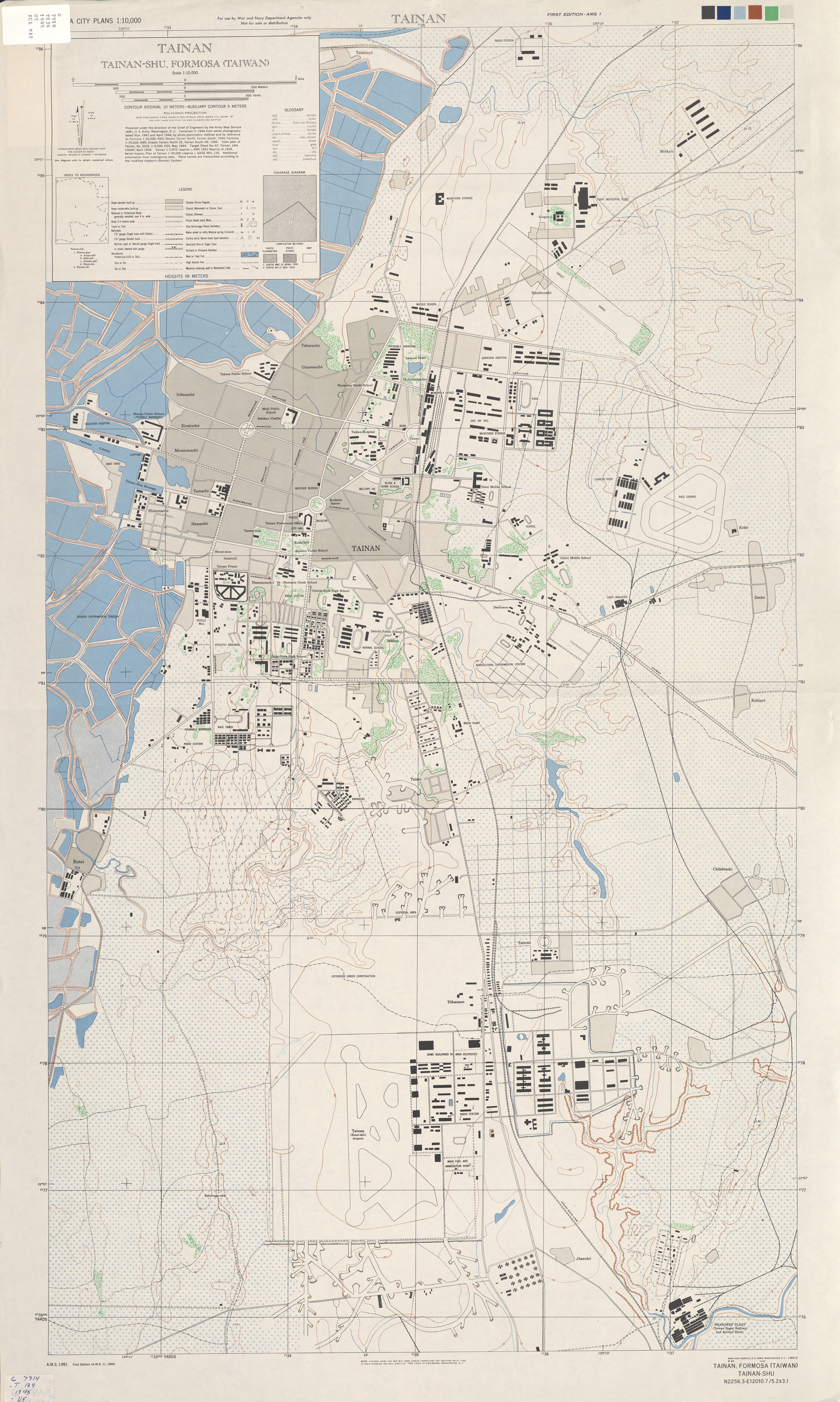 Centrl Tainan, Formosa (Taiwan) City Plans